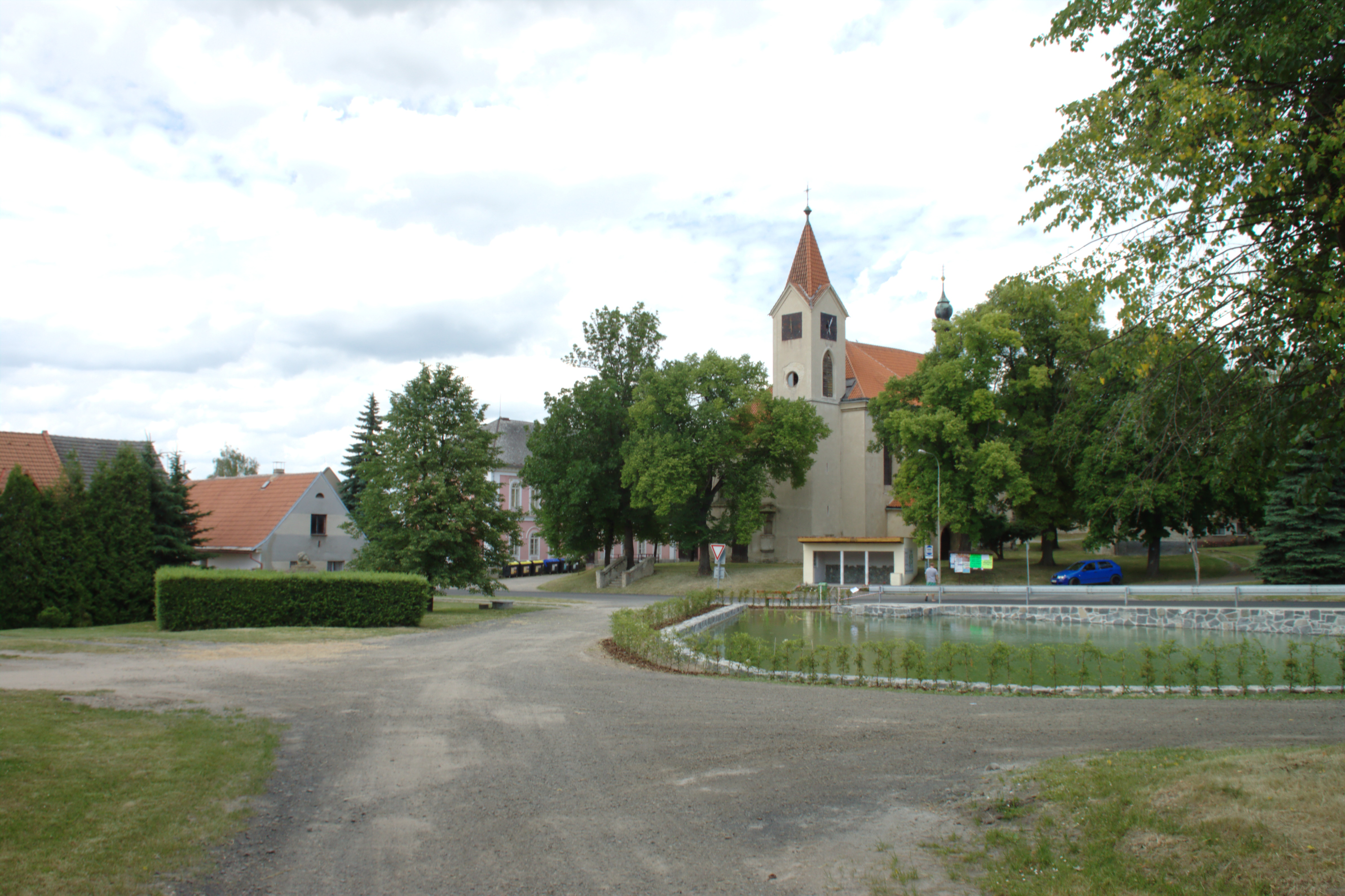 Main common in the village of Vetlá, Ústí Region, CZ